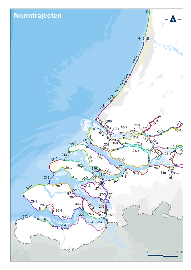 Dike sections in the Netherlands were the allowable inundation probability (failure probability) is given in the Water Law (Northern Netherlands)